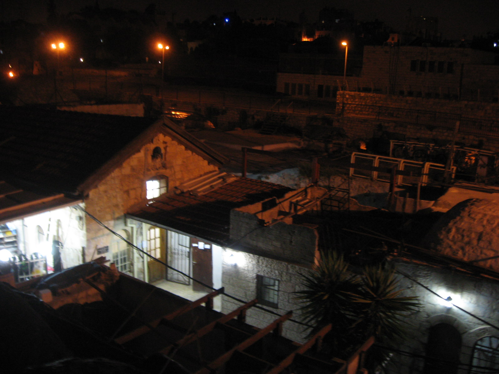 Old city of Jerusalem, חצר גליציה Galizia (or Galicia) courtyard (view from the Watchtower)